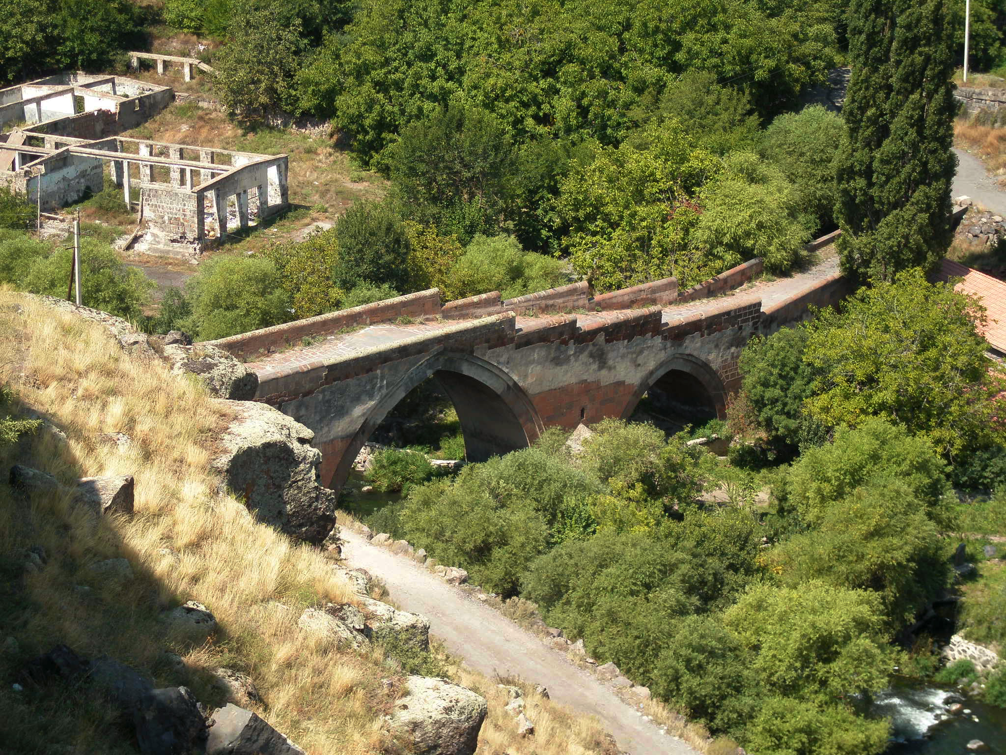 Ashtarak Bridge of 1664 at Ashtarak, Armenia.